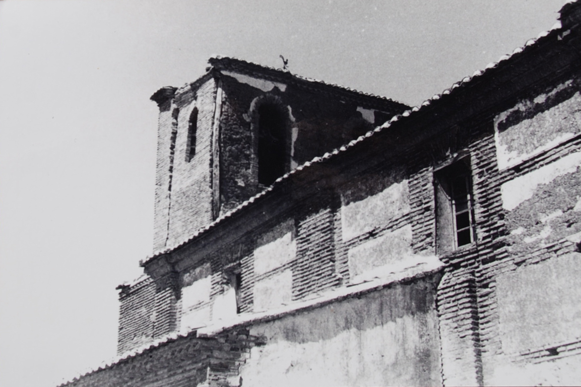 Original tower of the Church of La Asunción in Villamelendro de Valdavia (Palencia, Castile and León) built by Juan de la Cuesta around 1580. It was rebuilt as a bell Gamble at around 1960.